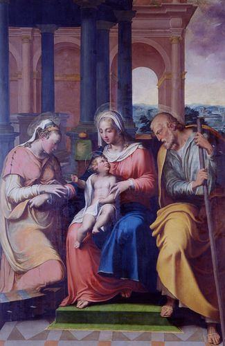 Mystical marriage of Saint Catherinelabel QS:Len,"Mystical marriage of Saint Catherine"label QS:Les,"Desposorios místicos de Santa Catalina"